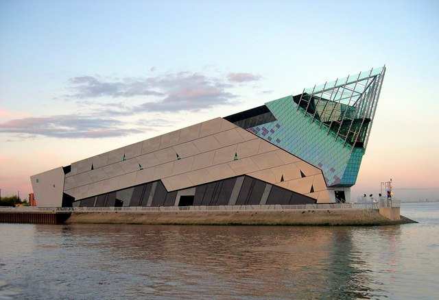 The Deep, Kingston upon Hull